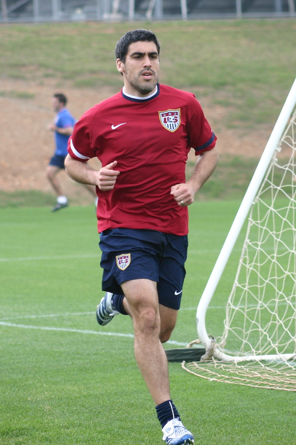 Claudio Reyna during USMNT practice sessionIMG_1521